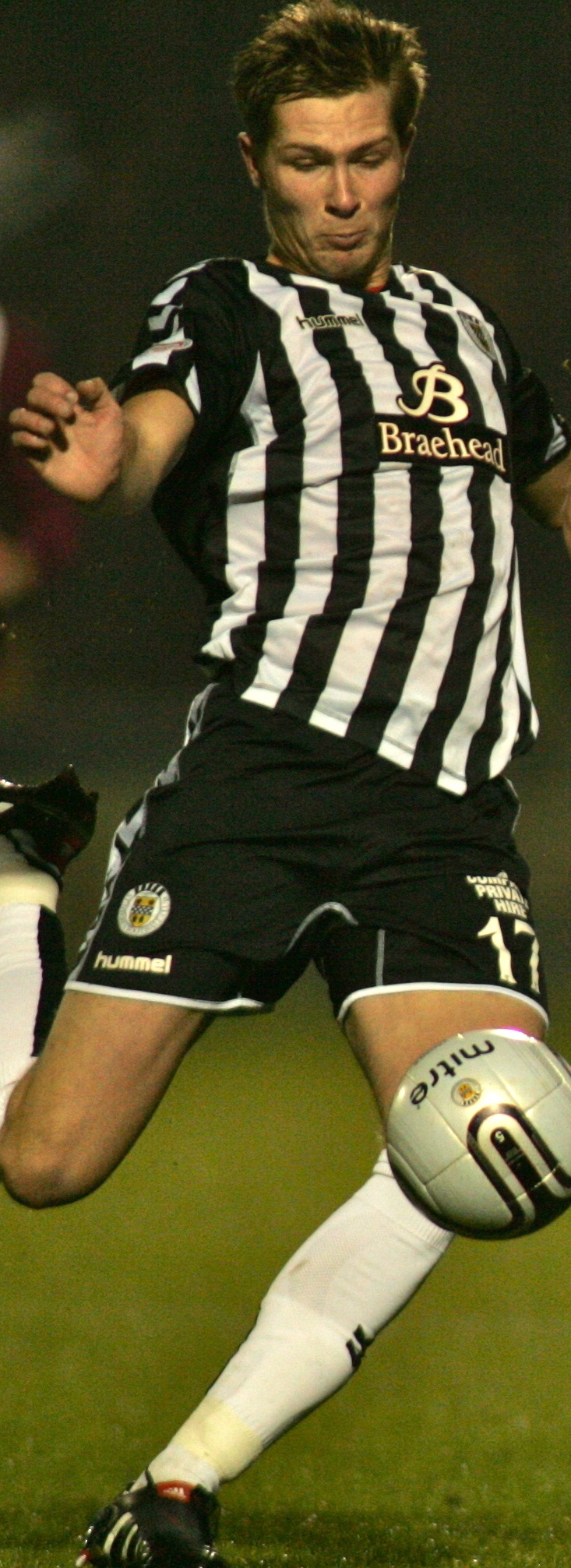 Marc McAusland playing for St. Mirren F.C. in a Scottish Premier League match against Heart of Midlothian F.C. on 29 December 2010.